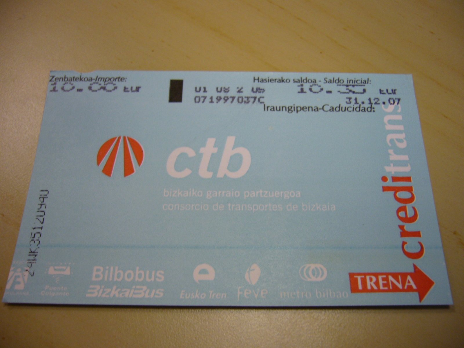 A Creditrans cashcard for the means of transport in Bilbao.